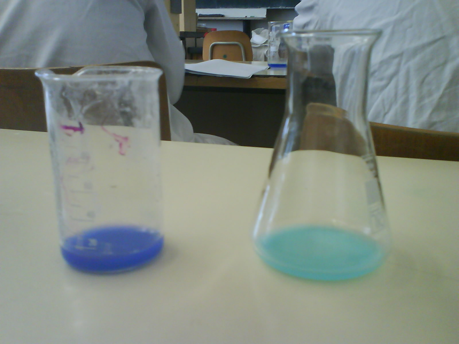 Chemical experiment